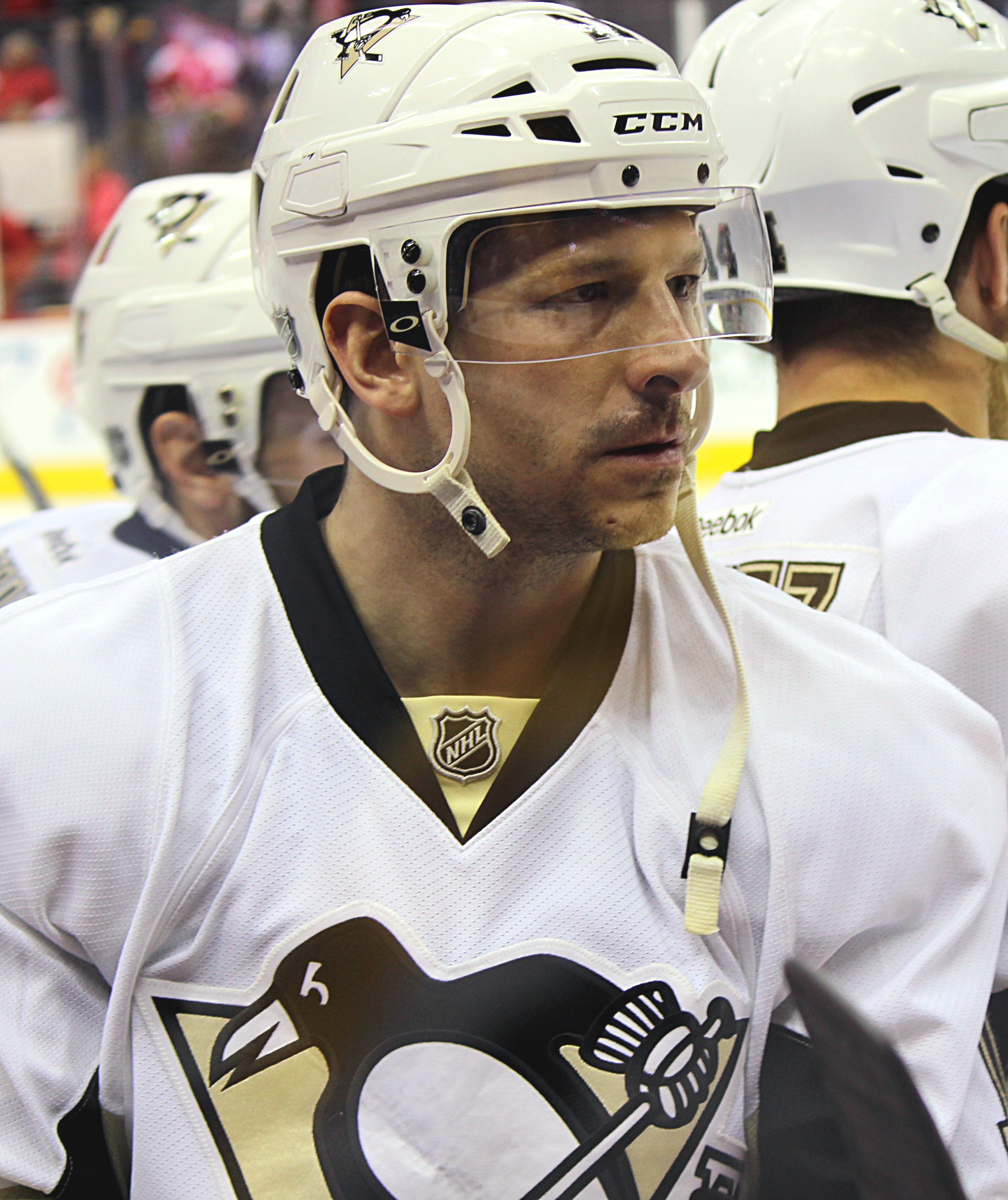 Pittsburgh Penguins forward Kevin Porter warms up prior to a game against the Washington Capitals, March 1, 2016, at Verizon Center in Washington, D.C.